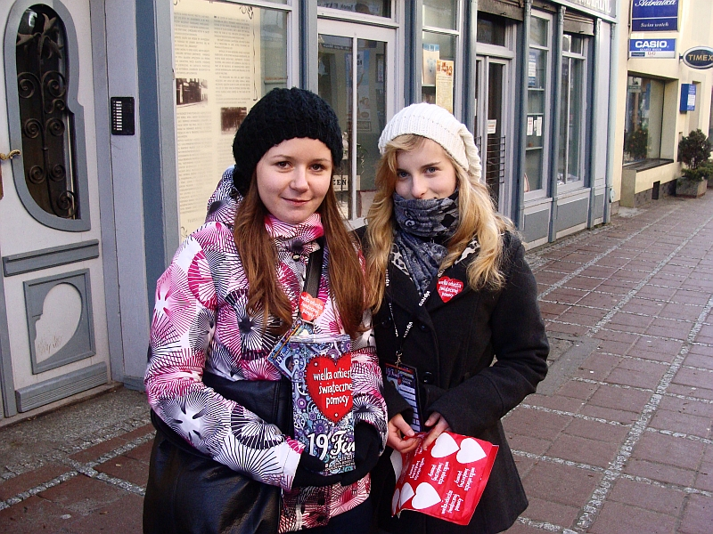 Great Orchestra of Christmas Charity